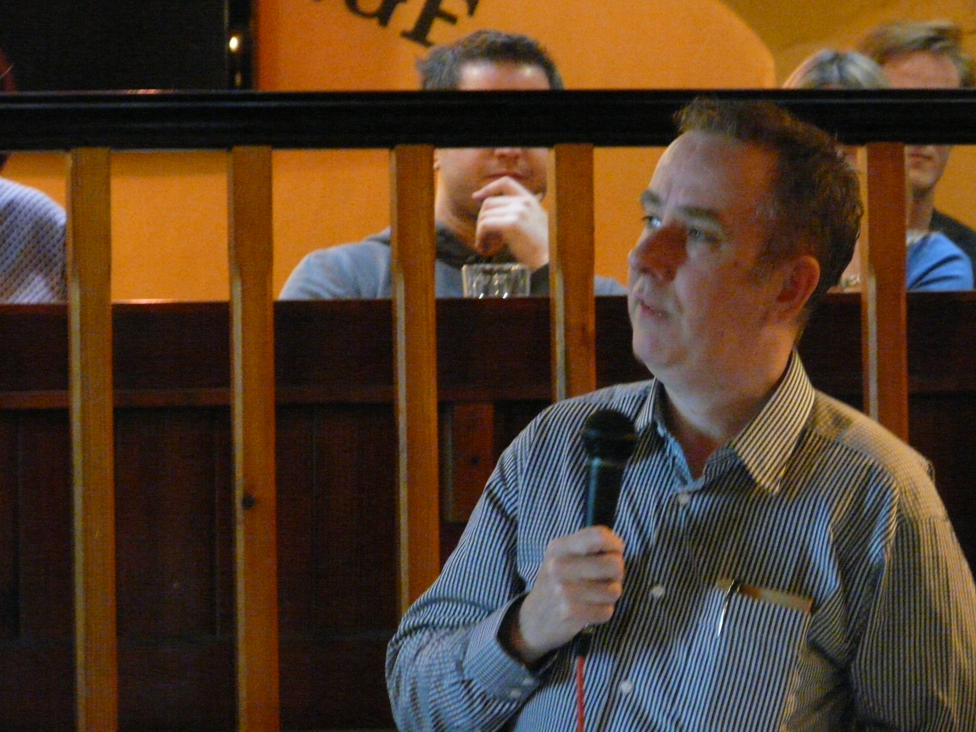 Brian Deer at Westminster sceptics meeting